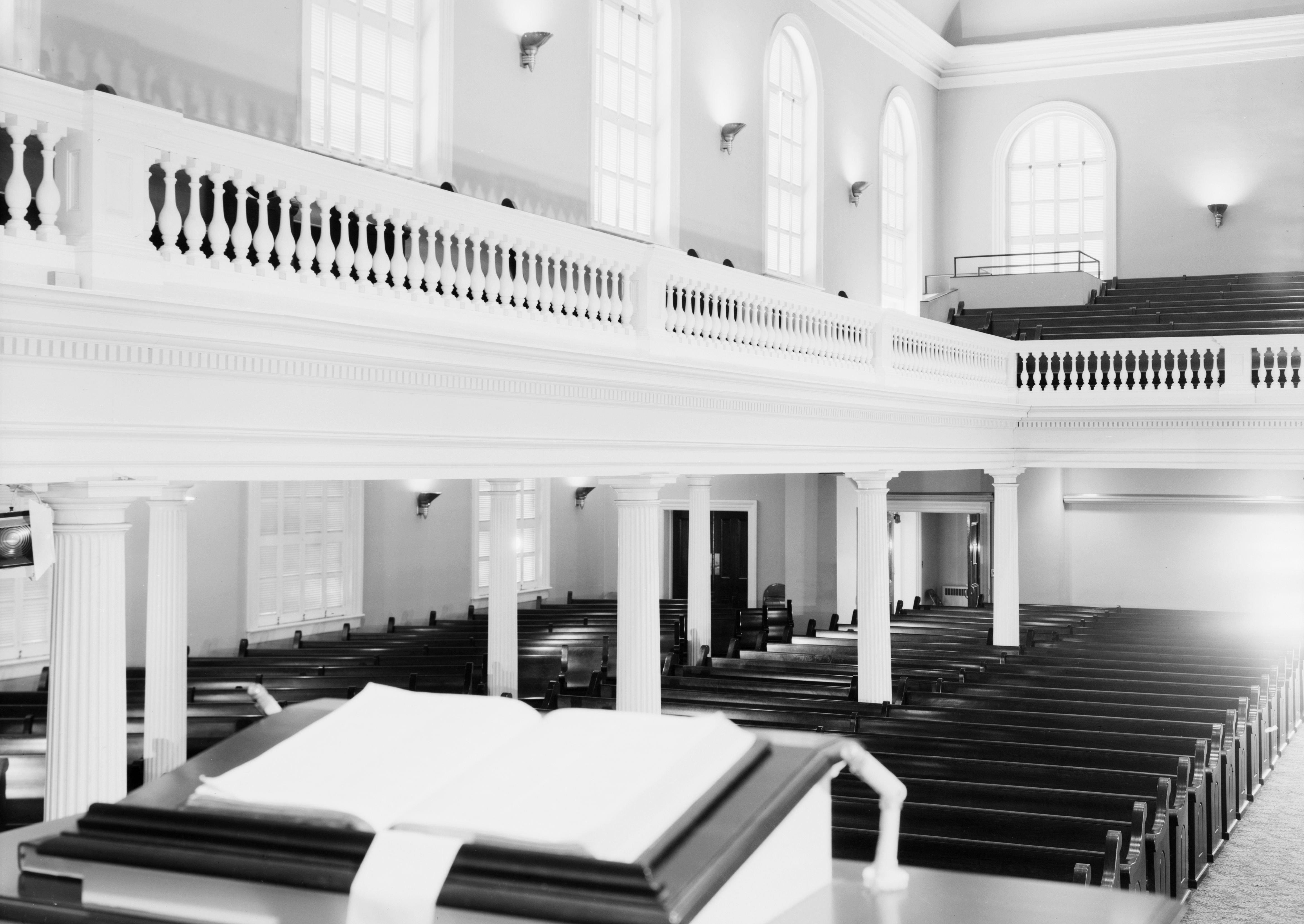 First Baptist Church, Hampton Street, Columbia, Richland County, South Carolina. Interior, towards vestibule. Cropped to remove black border.